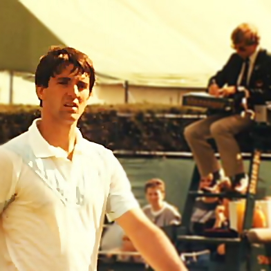 Slobodan Zivojinovic playing on the outside courts of Wimbledon (year unknown - but possibly 1985). Reproduction of original print.